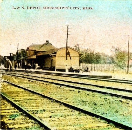 Louisville and Nashville Railroad Depot, Mississippi City, Mississippi, USA